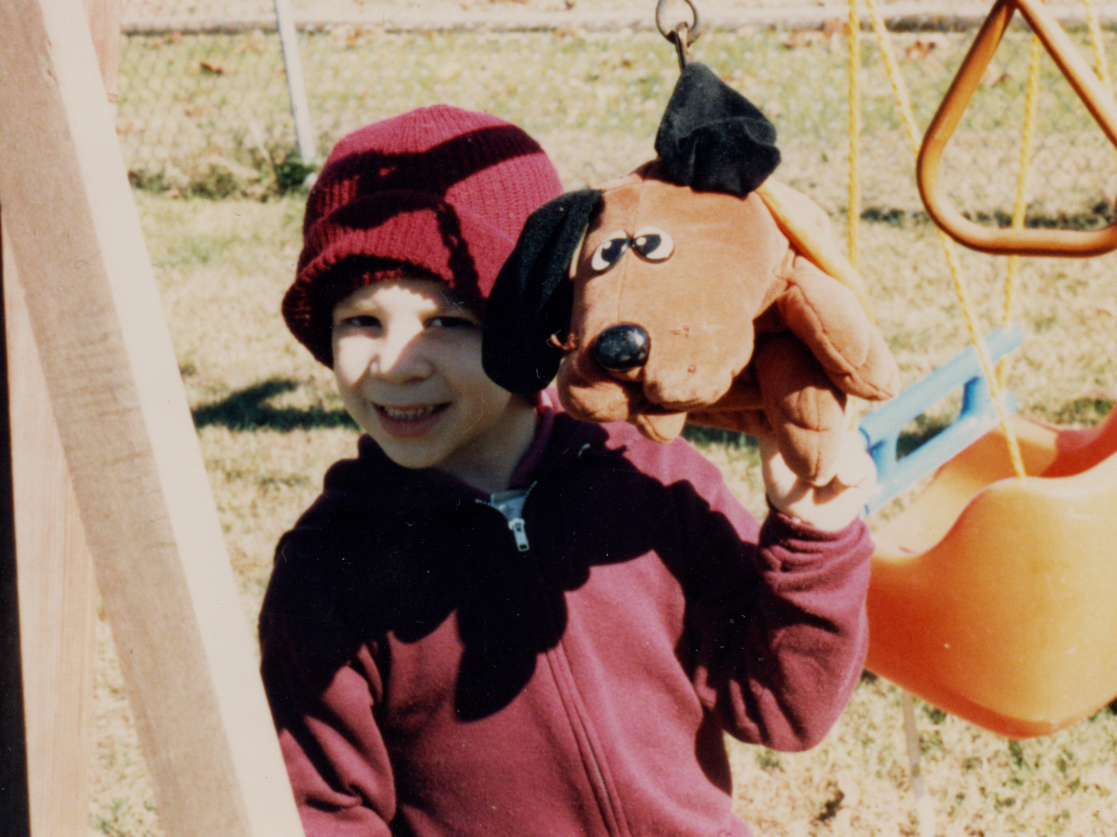 Ben Schumin poses with a stuffed Pound Puppies toy.